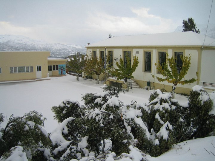 A winter view of Fourfouras Primary School in the village of Fourfouras, Rethymno, Greece.